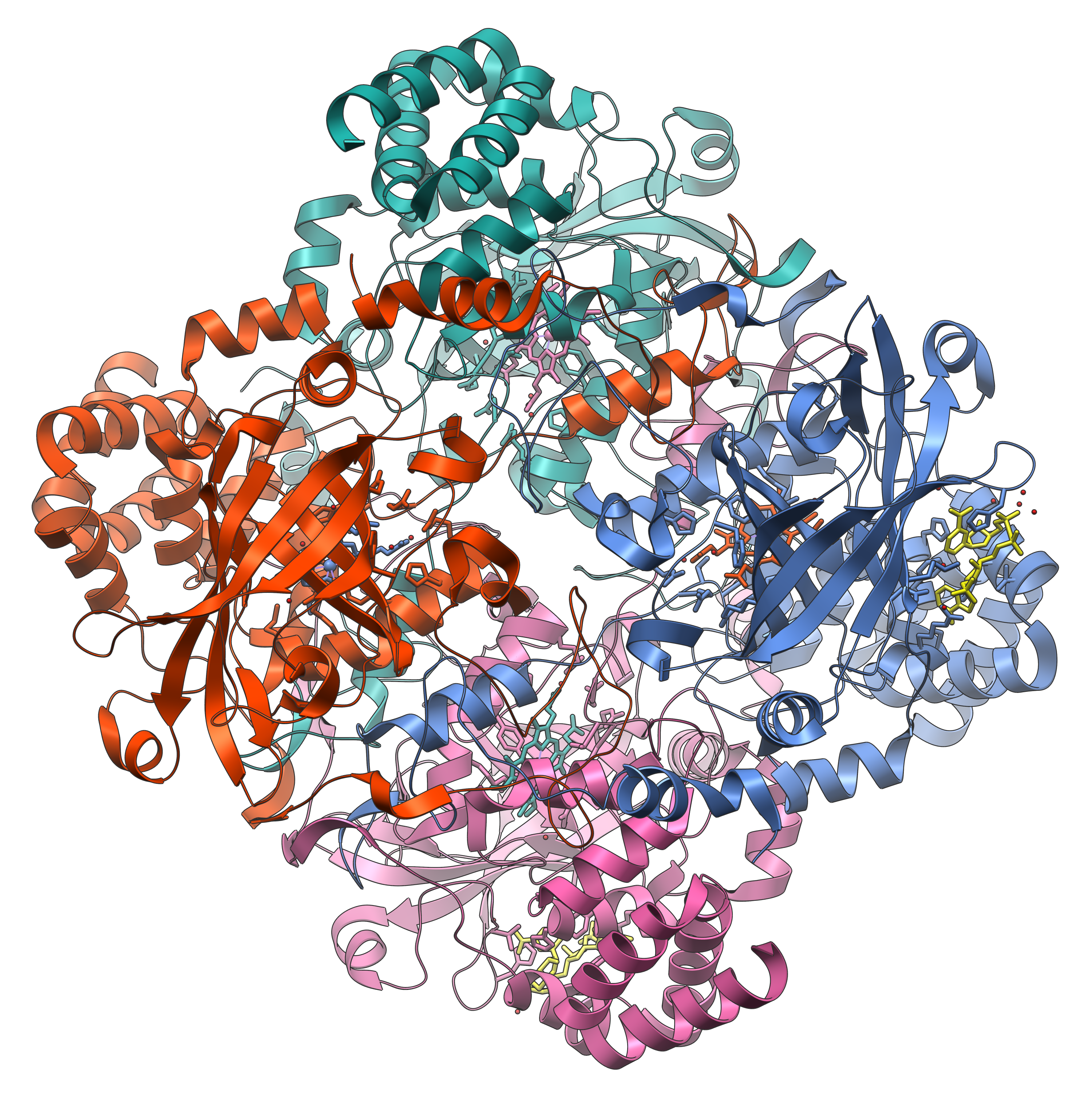 Catalase protein structure rendering based on PDB id 1dgb using UCSF Chimera.